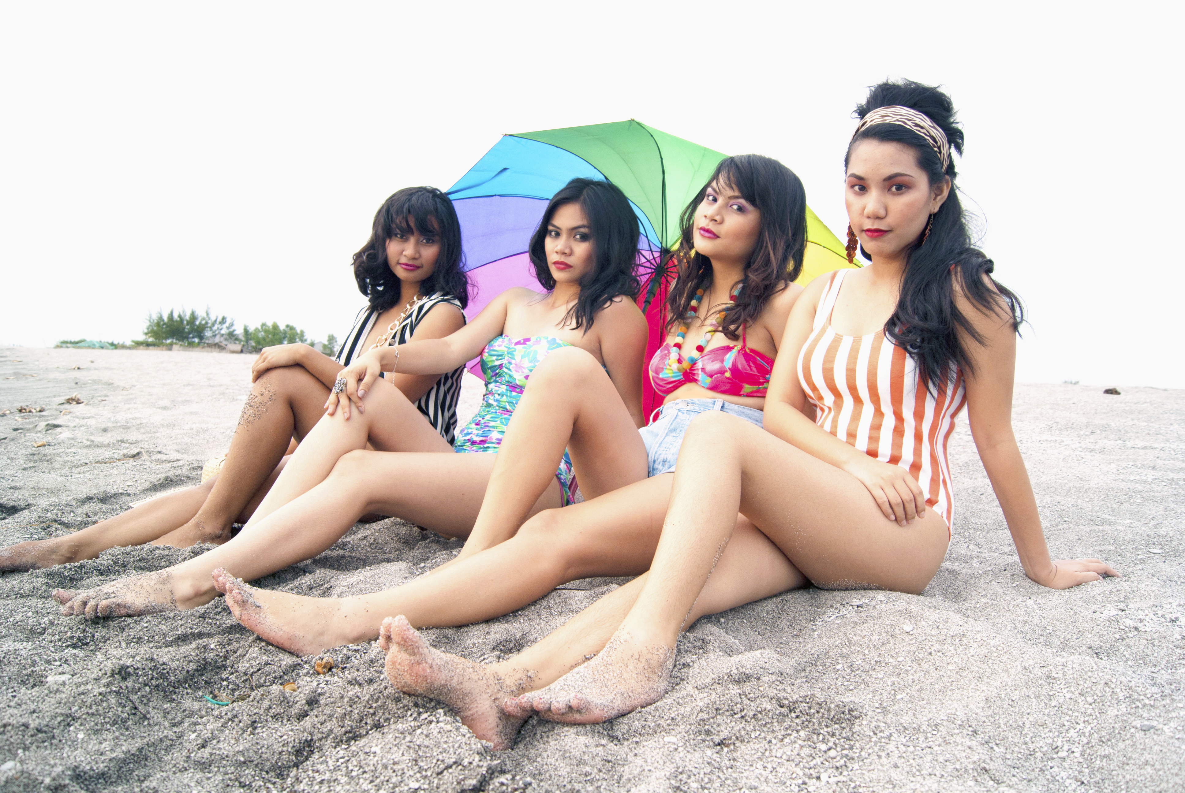 1950, A Lovely Day To Sunbathe. Models: Cesra Battad, Catherine Ramos, Ellen Joy Salviejo and Kezzielyn Abad. Location: Pundakit, San Antonio.